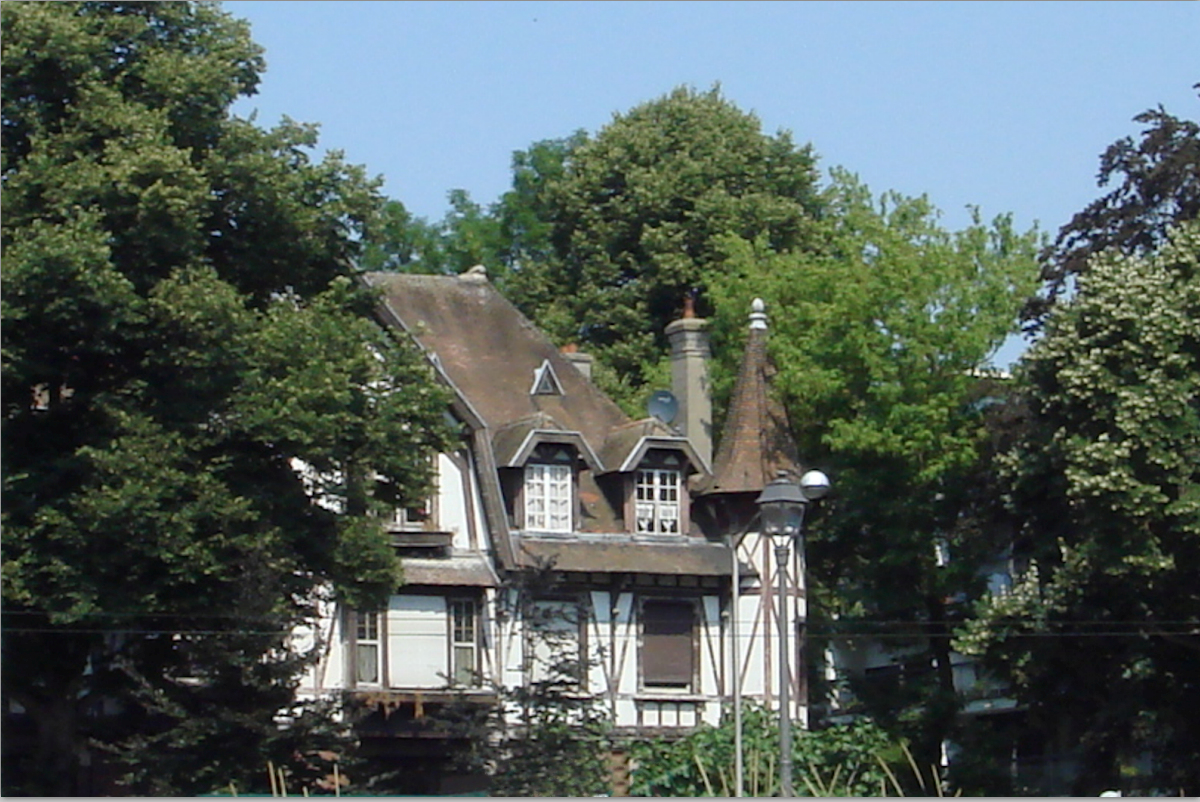 Croix villa